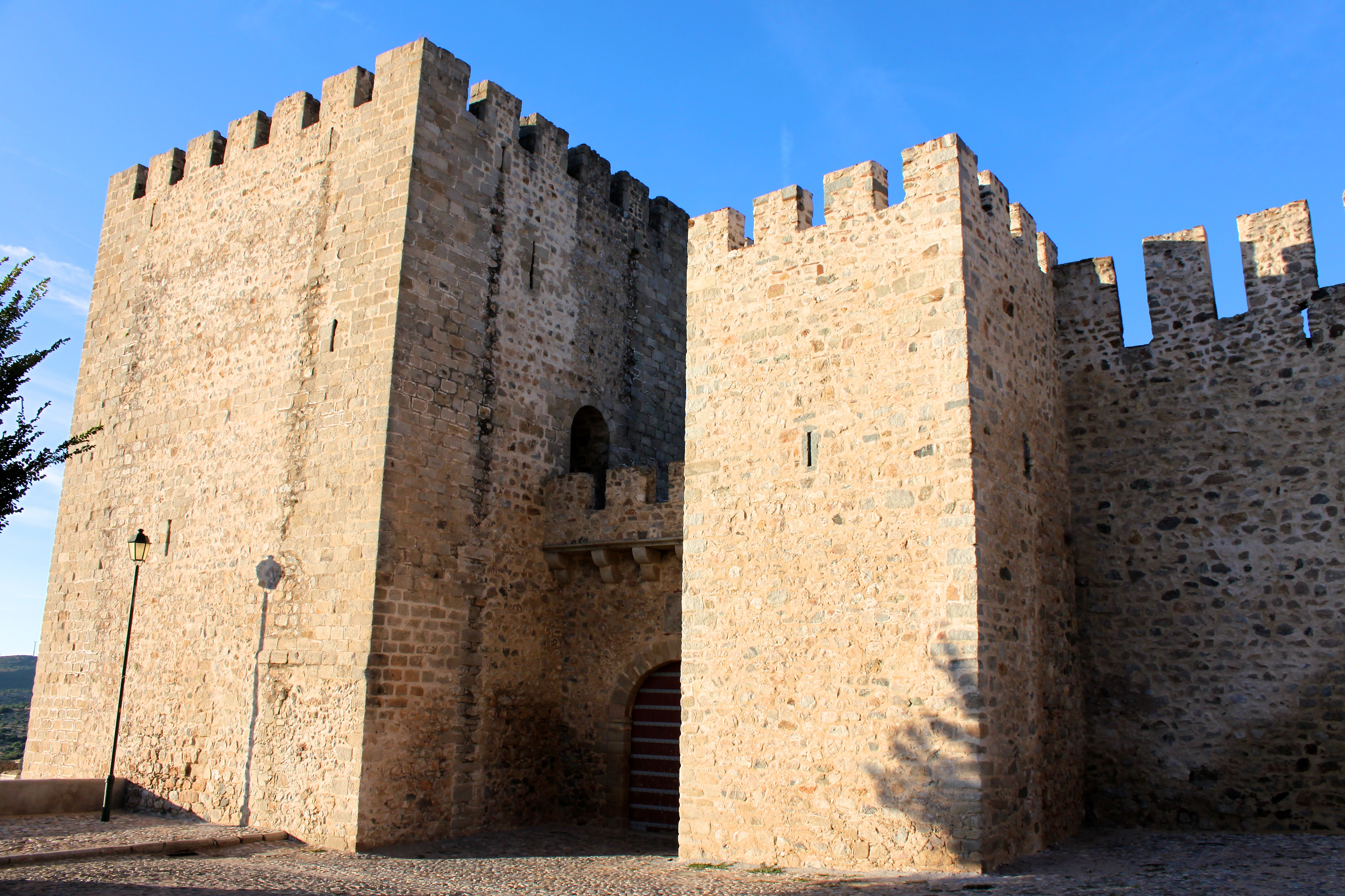 This file was uploaded for Wiki Loves Monuments in Portugal with the unique identifier 70566.